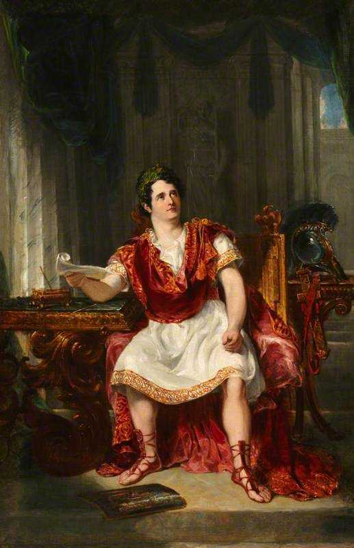 Portrait of the Italian tenor Gaetano Crivelli (1768–1836) in Roman costume. The original is held by the The Royal Society of Musicians of Great Britain and was donated by the executor of the Crivelli's estate.